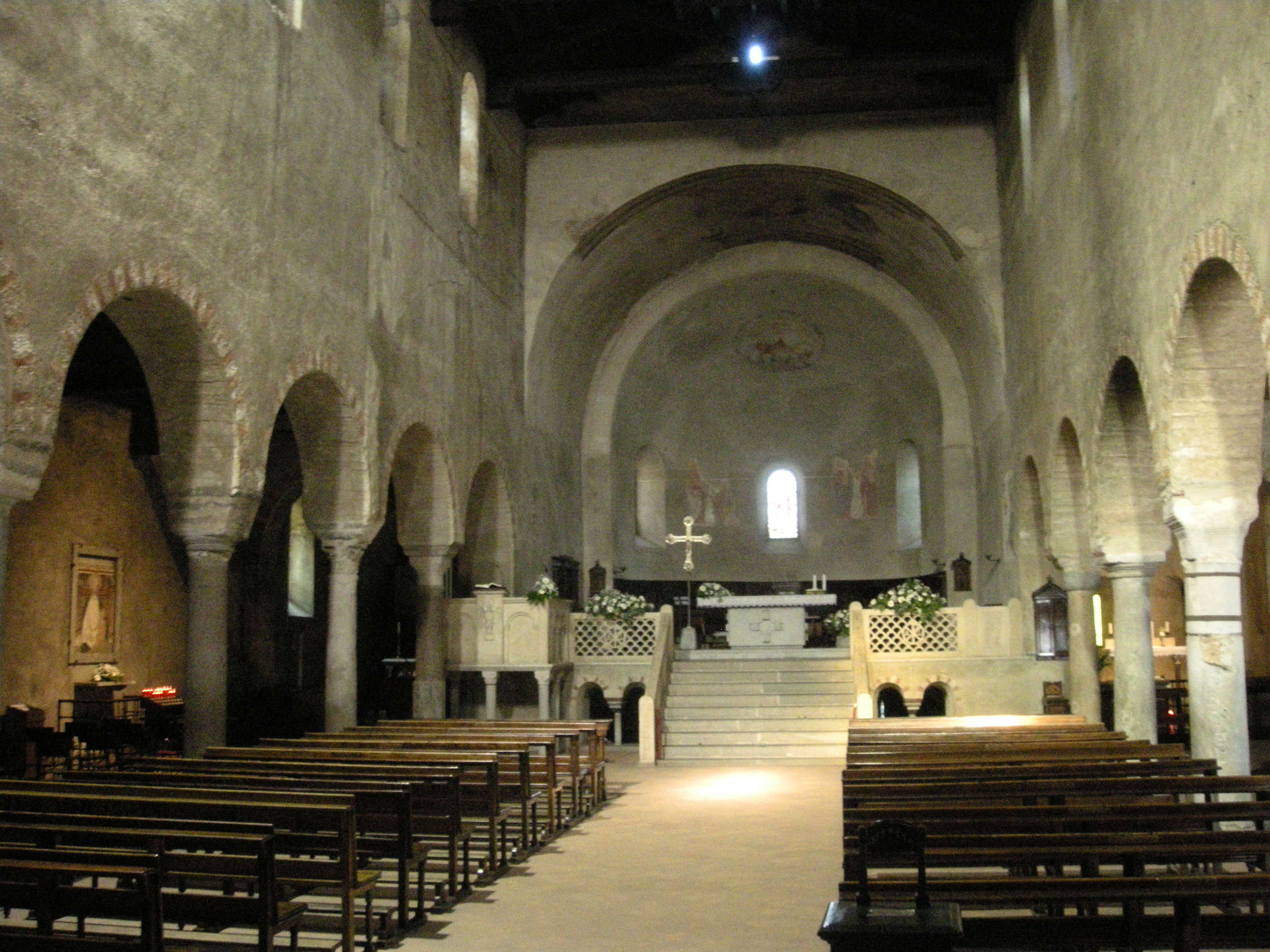 Interior - Basilica of Saints Peter and Paul in Agliate (Italy)